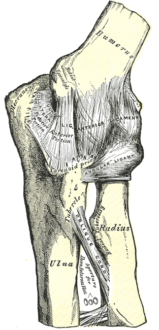 Left elbow joint, showing anterior and internal ligaments